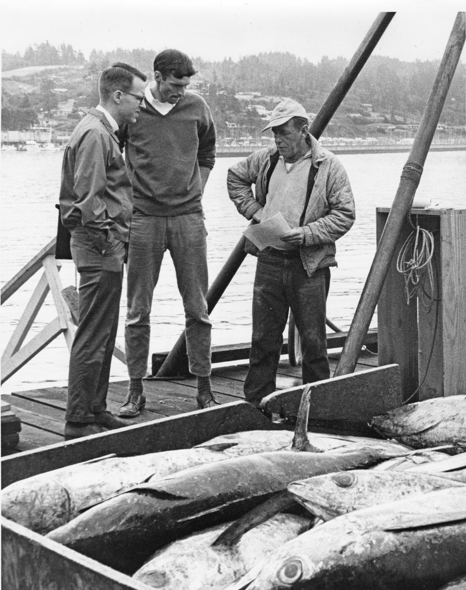 Original Collection: Extension and Experiment Station Communications (P 95) Item Number: P092:1249 Image Description: Photo part of the Extension Oral History Project. Robert W. Jacobson was a Marine Extension Agent at the Marine Science Extension Center in Newport for 28 years, 1967-1995. You can find this image by searching for the item number by clicking here. Want more? You can find more digital resources online. We're happy for you to share this digital image within the spirit of The Commons; however, certain restrictions on high quality reproductions of the original physical version may apply. To read more about what “no known restrictions” means, please visit the Special Collections & Archives website, or contact staff at the OSU Special Collections & Archives Research Center for details.